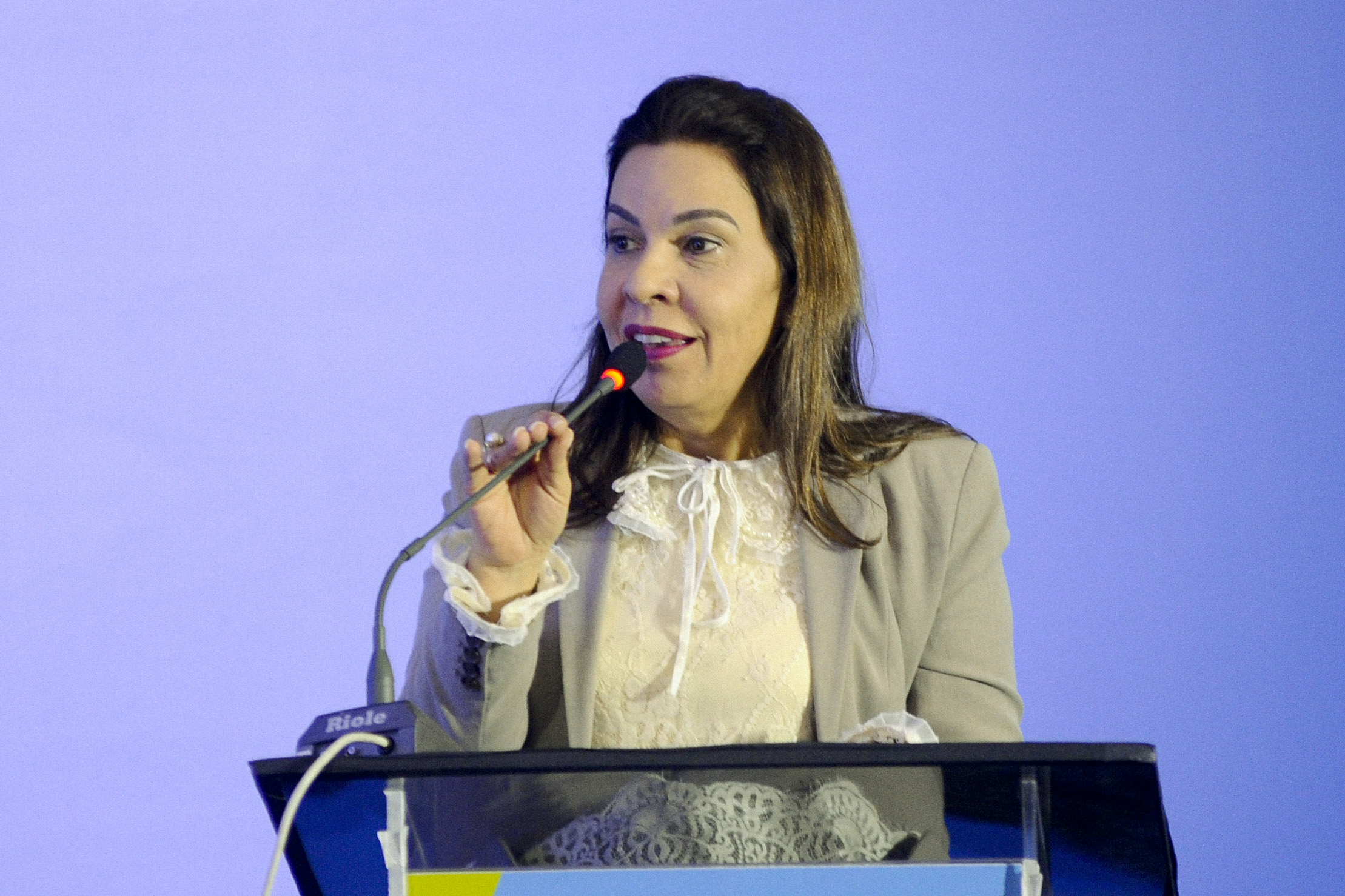 8º Fórum Mundial da Água - Conferência parlamentar com o tema: "O papel dos Parlamentos e o direito à água".Em discurso, deputada Raquel Muniz (PSD-MG).Foto: Marcos Oliveira/Agência Senado